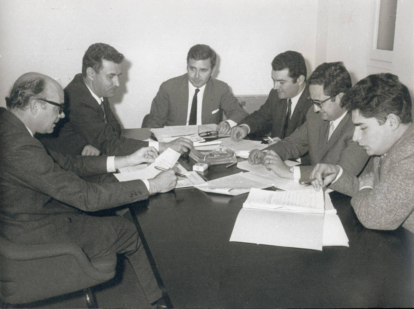 Teaching Committee 1st CIHS